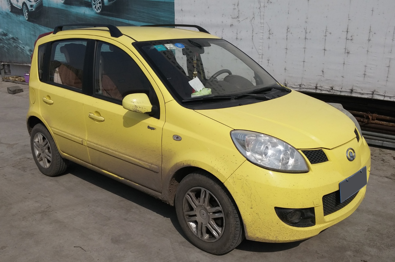 Great Wall Peri photographed in Harbin, Heilongjiang province, China.